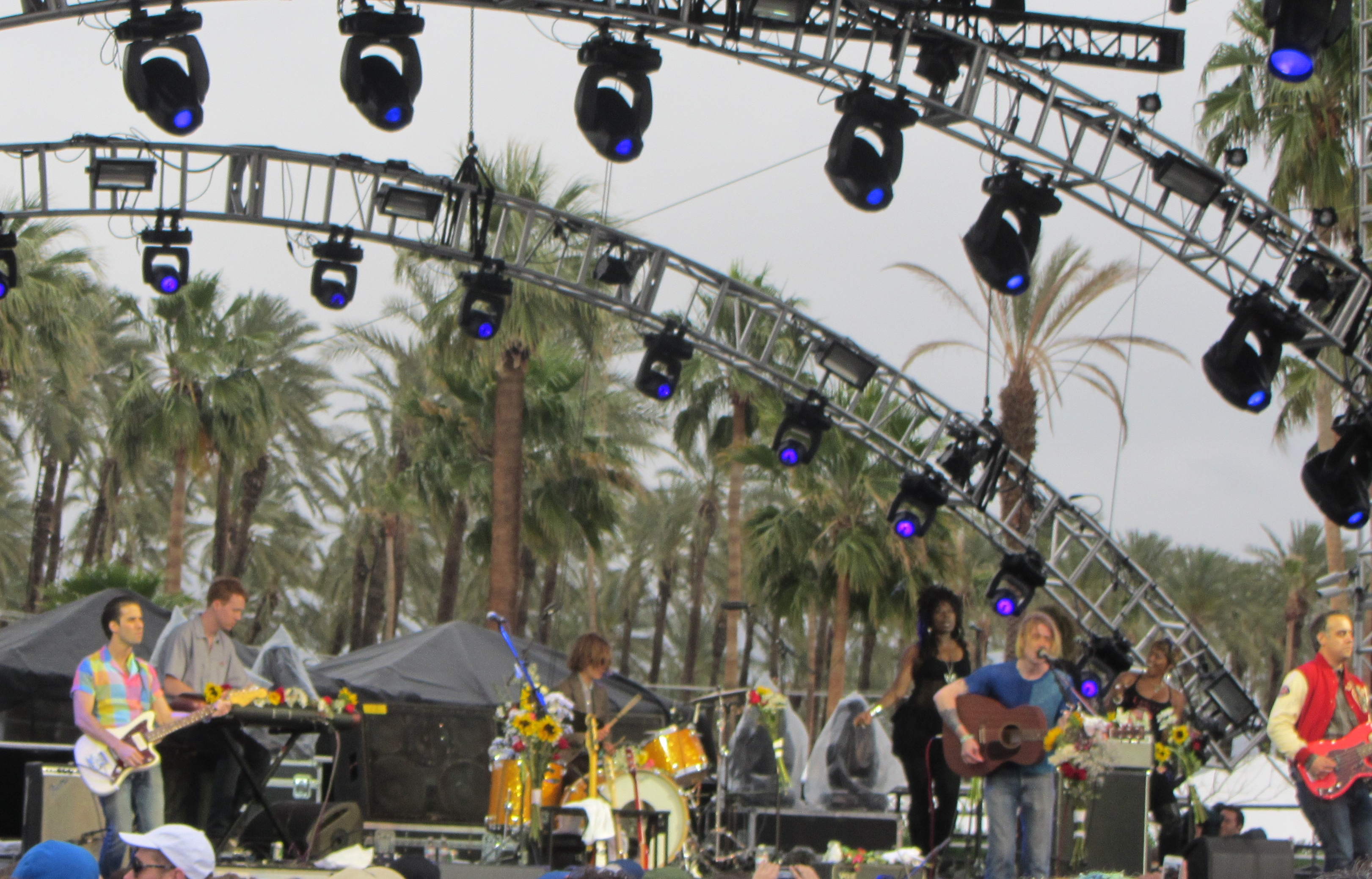 Girls performing at Coachella, 2012.